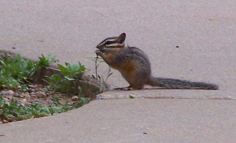 Cliff Chipmunk, Tamias dorsalis, at El Morro National Monument, New Mexico, USA